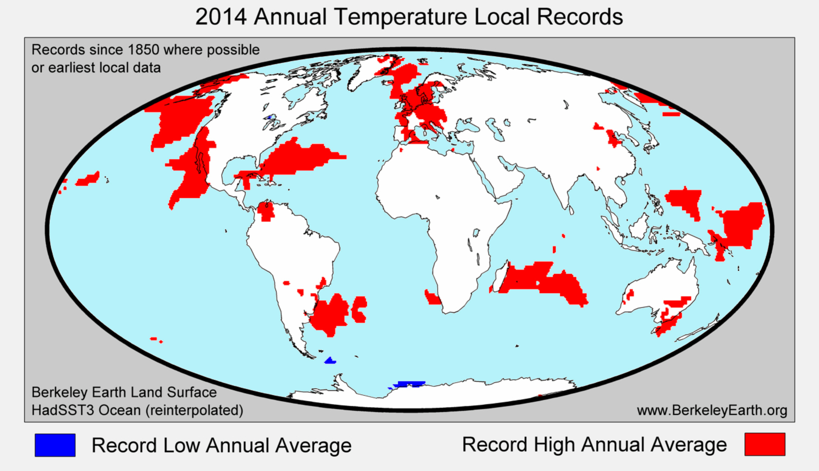 Temperature map of regions where record highs and lows were set in 2014